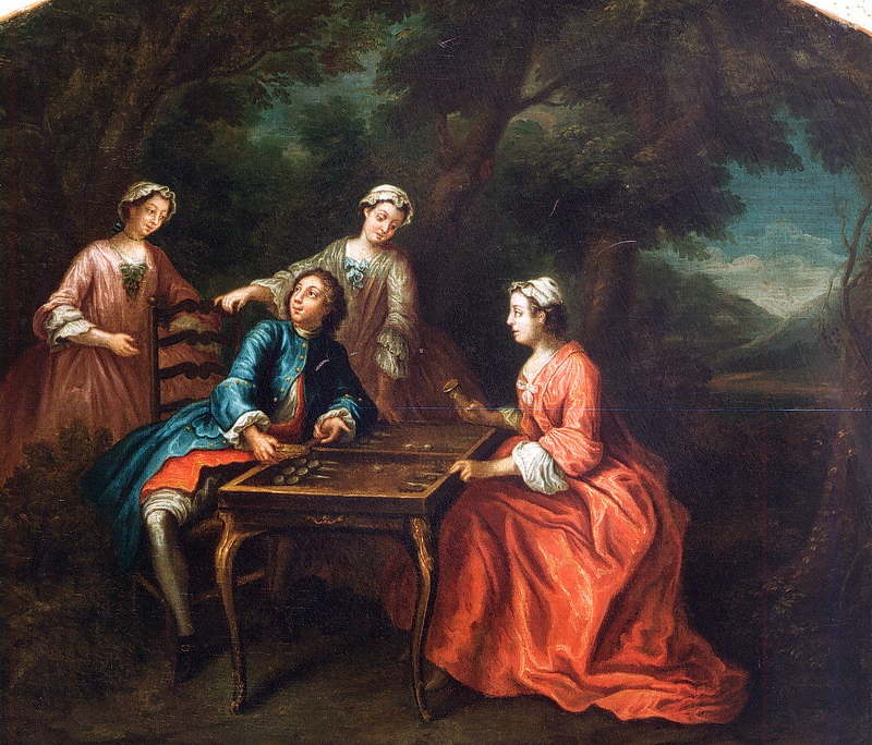 The tric-trac players (Collection of the Université de Liège, Belgium)